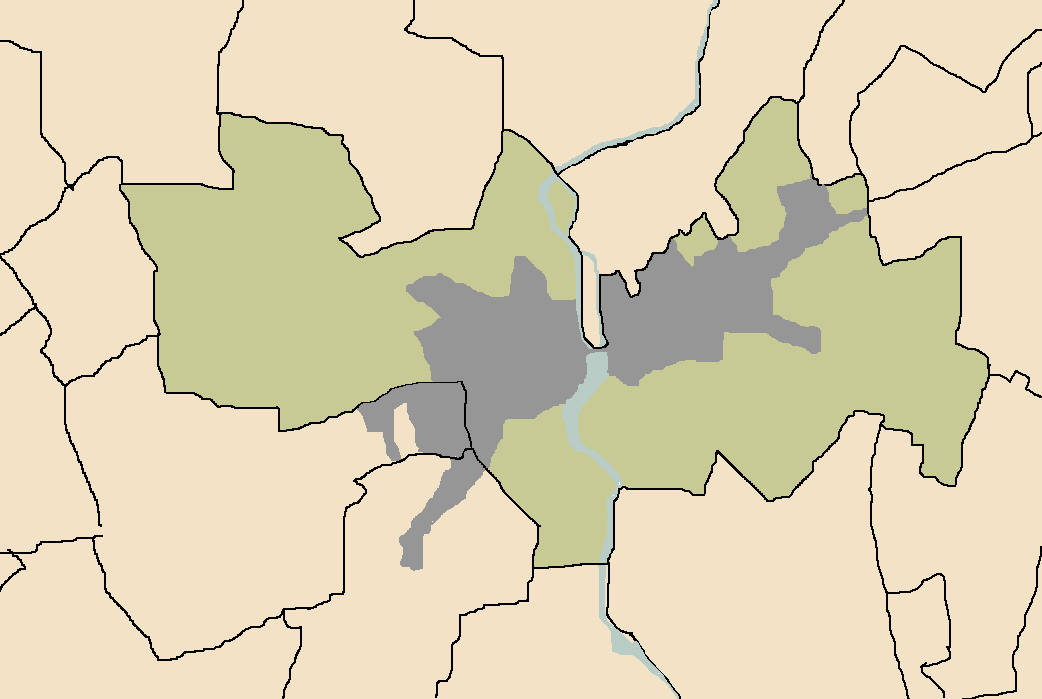 Outline map of Thurles Townparks townland showing the built-up area of Thurles town in the 1840s, some of which extends beyond Thurles Townparks townland into the neighbouring townlands of Garryvicleheen and Stradavoher. This outline map is derived from information shown in this Ordnance Survey map